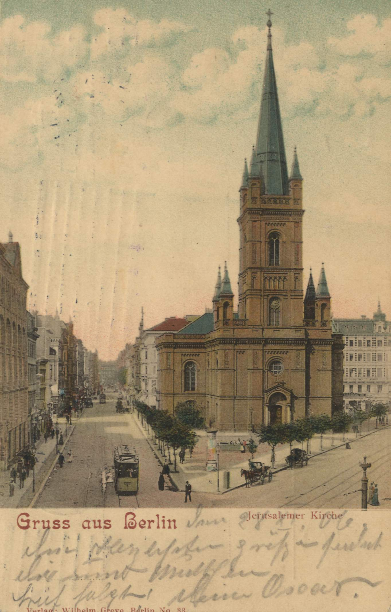 Protestant Jerusalem's Church in Berlin-Kreuzberg. This church building was located in the crossroads of today's Axel-Springer-Straße, Rudi-Dutschke-Straße / Lindenstraße / Oranienstraße. On the postcard the view is directed northwards into Jerusalemer Straße, now blocked by the head quarters of Axel Springer AG covering the southern end of Jerusalemer Straße and the street behind the church on the northern side of the crossroads then named An der Jerusalemer Kirche. In 1943 the church was sold to Romania and served between 1944 and 1945 Berlin's Romanian Orthodox congregation, after an interior refurbish. The church was then consecrated as Church of the Archangels Michael and Gabriel, however it has been destroyed in World War II on 3 February 1945 in an US air raid and its ruin was demolished in March 1961. New Jerusalem's Church was finished in 1968 more southwestwards in the crossroads of Lindenstraße and Markgrafenstraße.